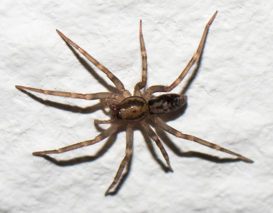 Close up, with color correction